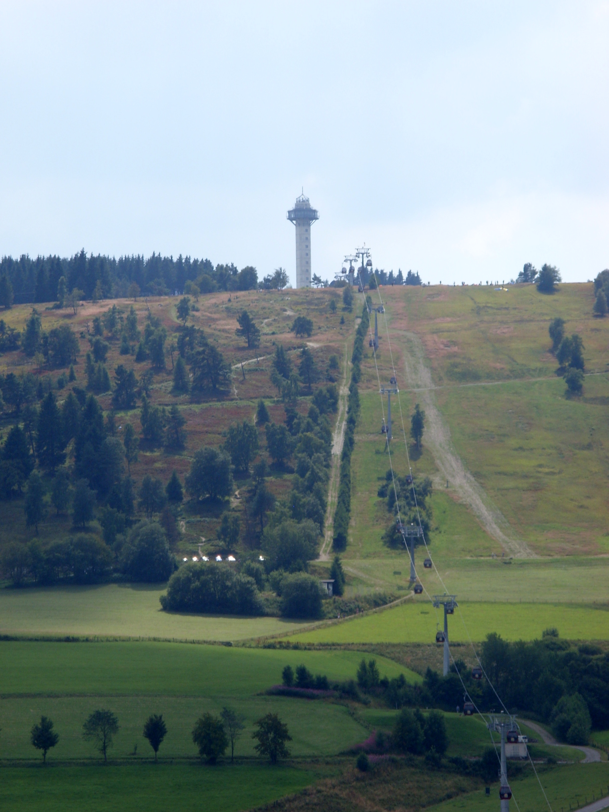 The hill Ettelsberg (Willingen)